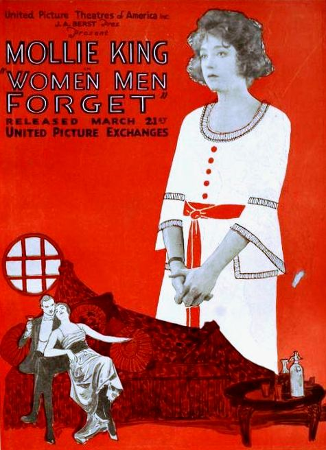 Advertisement for the American drama film Women Men Forget (1920) with Mollie King, on page 3203 of the April 10, 1920 Motion Picture News.